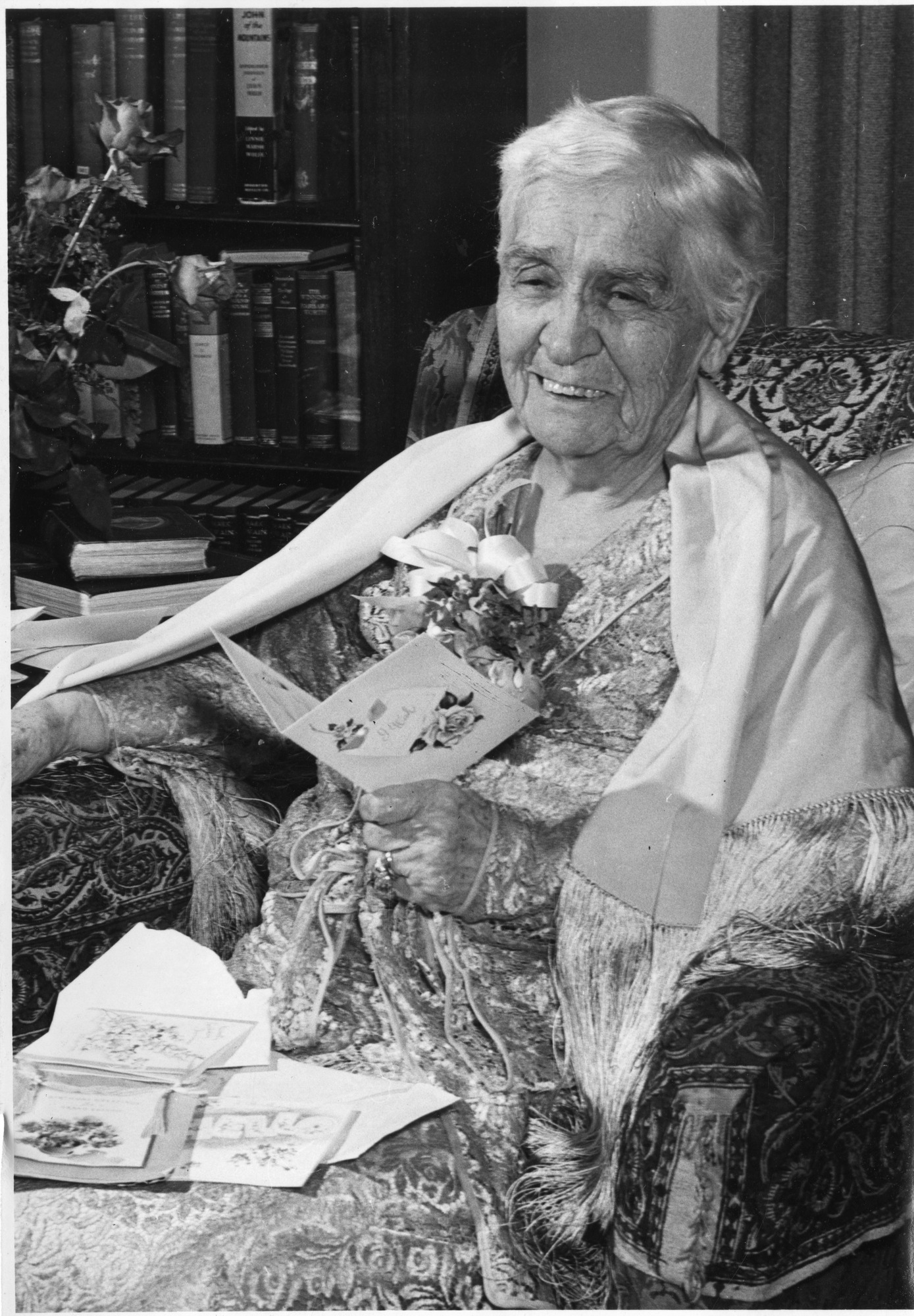 Creator: Cooney, Martin J Subject: Ritter, Mary Elizabeth Bennett 1860-1949 Type: Black-and-white photographs Date: 1946 Topic: Medicine Women scientists Local number: SIA Acc. 90-105 [SIA2009-2300] Summary: Mary Elizabeth Bennett Ritter (1860-1949) was a physician and the wife of biologist William Emerson Ritter (1856-1944), one of the founders of Science Service. This photograph was published in the Berkeley Daily Gazette on her 87th birthday in 1946 Cite as: Acc. 90-105 - Science Service, Records, 1920s-1970s, Smithsonian Institution Archivess Persistent URL:Link to data base record Repository:Smithsonian Institution Archives View more collections from the Smithsonian Institution.